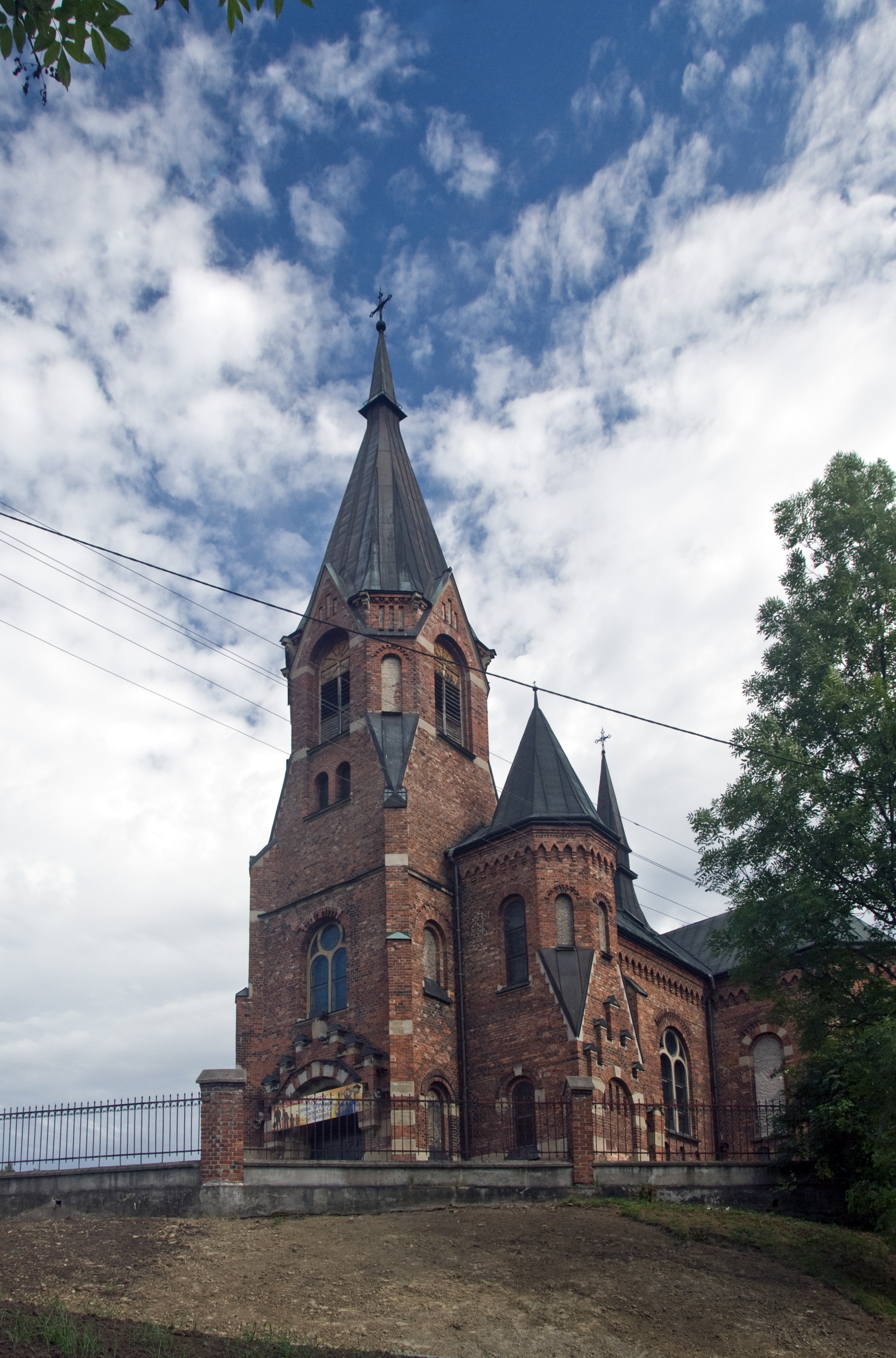 Nowy Sącz, St. Lawrence's church